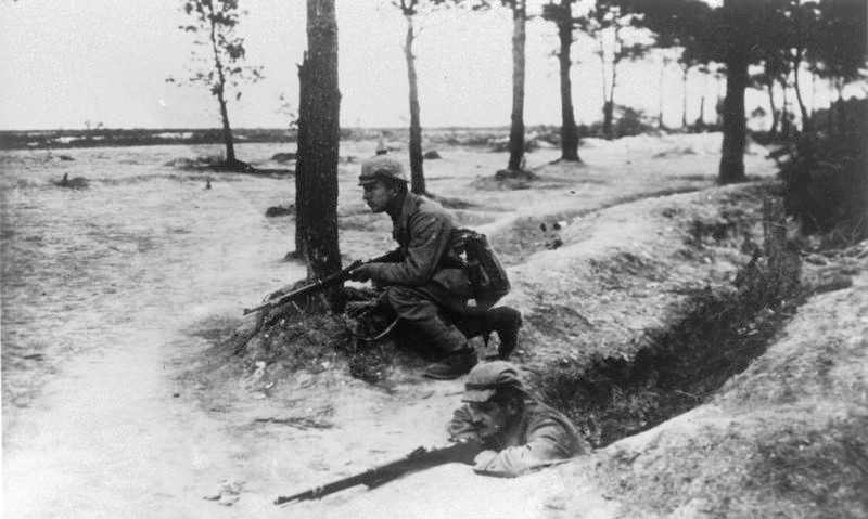 German western front 1915, German forward detachments guarding the entrance to a trenchline infront of Arras